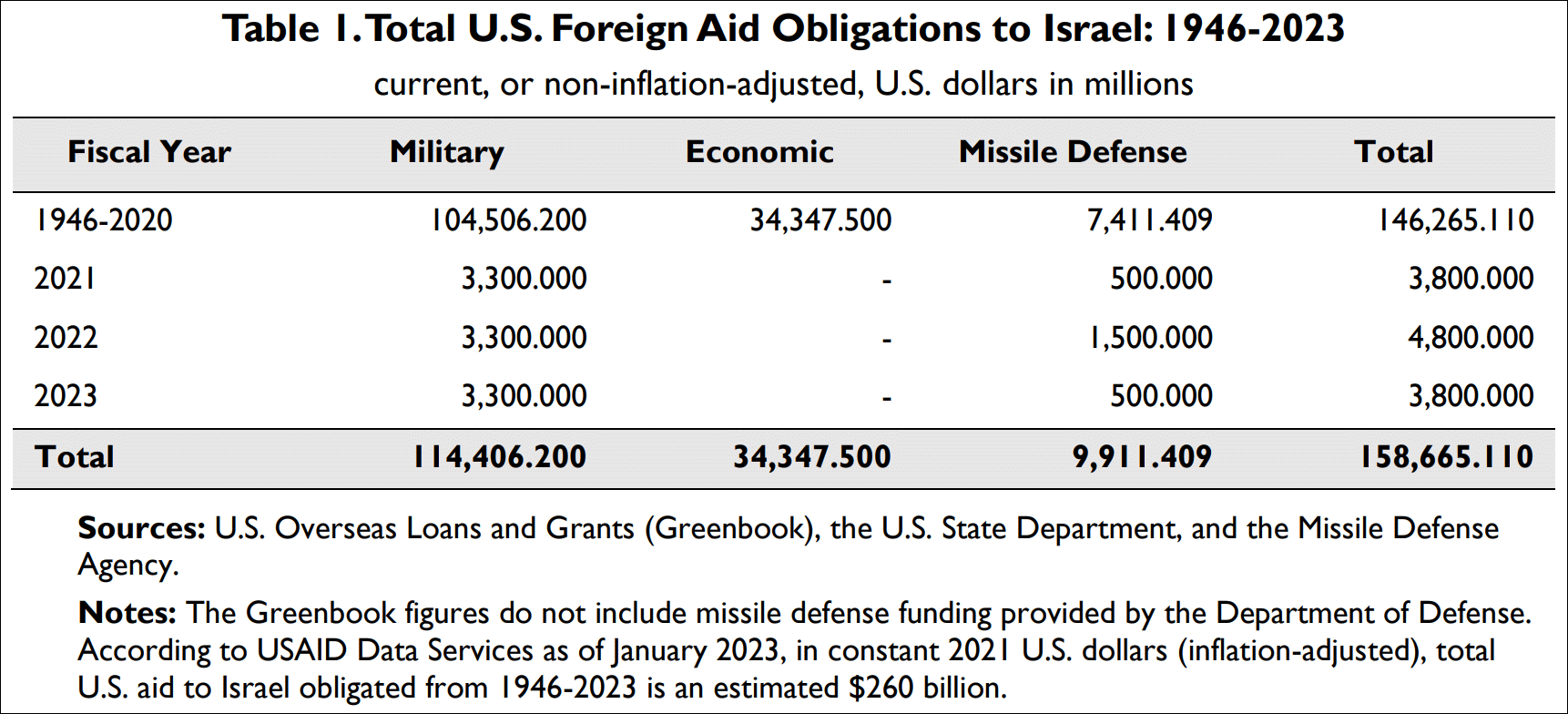 Table from an April 11, 2013 Congressional Research Service report titled "U.S. Foreign Aid to Israel". By Jeremy M. Sharp, specialist in Middle Eastern Affairs.